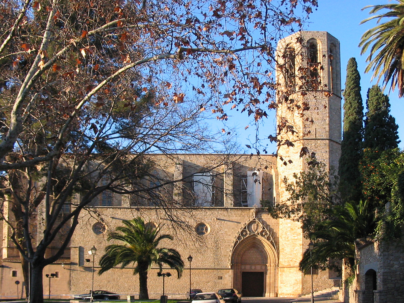 Cloister and church of Santa Maria de Pedralbes in Barcelona